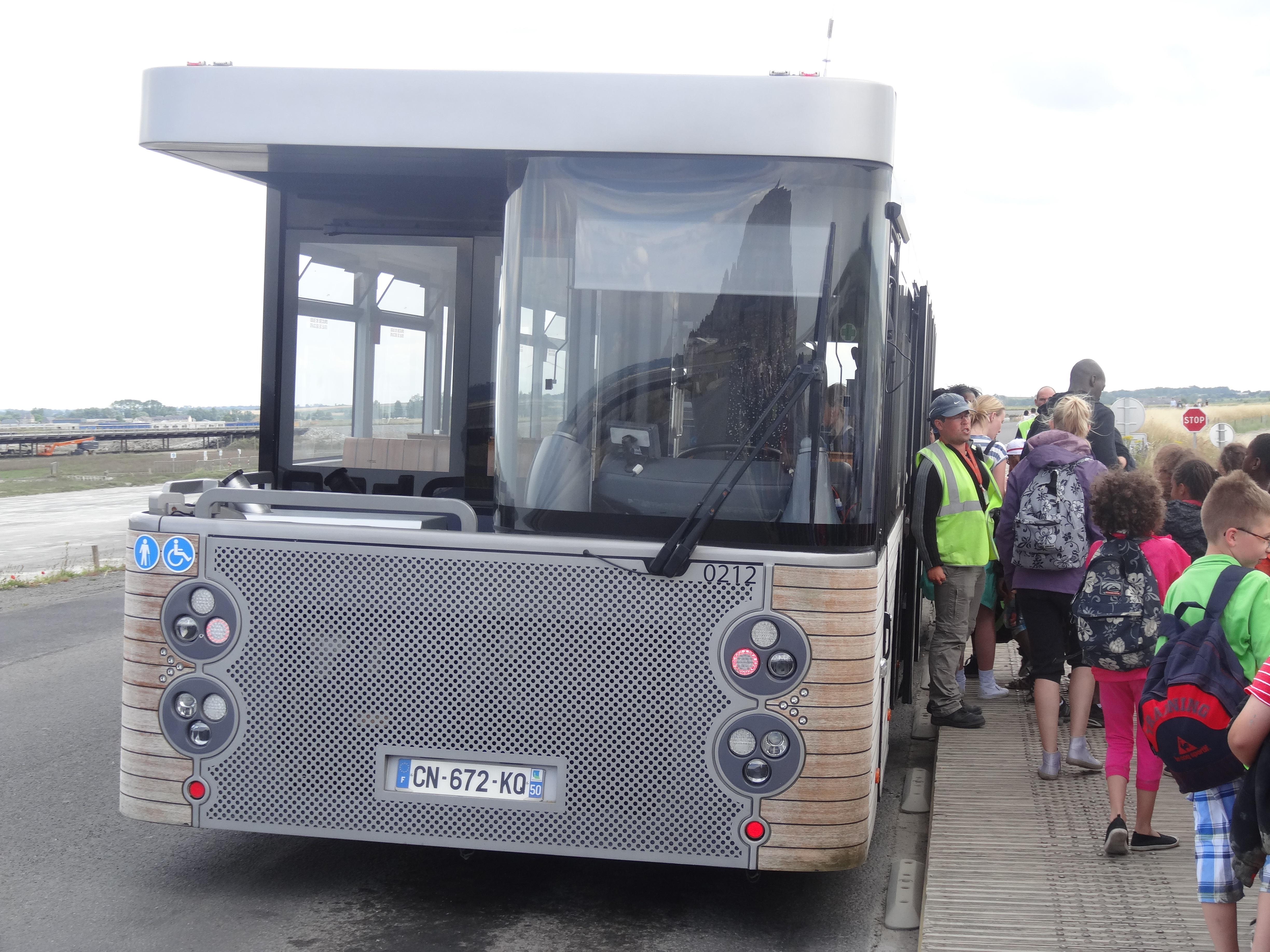 New bus at the Mont Saint-Michel